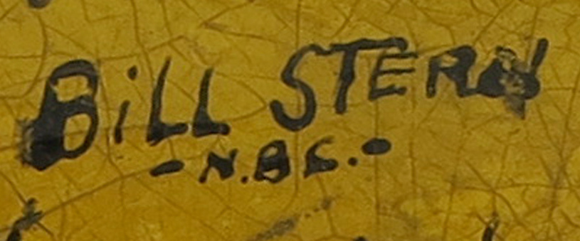 An old regulation football inscribed with autographs of some of University of Michigan's famous football players, dating from 1903 including Fielding Yost and 1940 Heisman Trophy winner Tom Harmon. It is also signed by sportscasters Bill Stern and Ted Husing. It is painted with the University of Michigan colors of blue and maize.